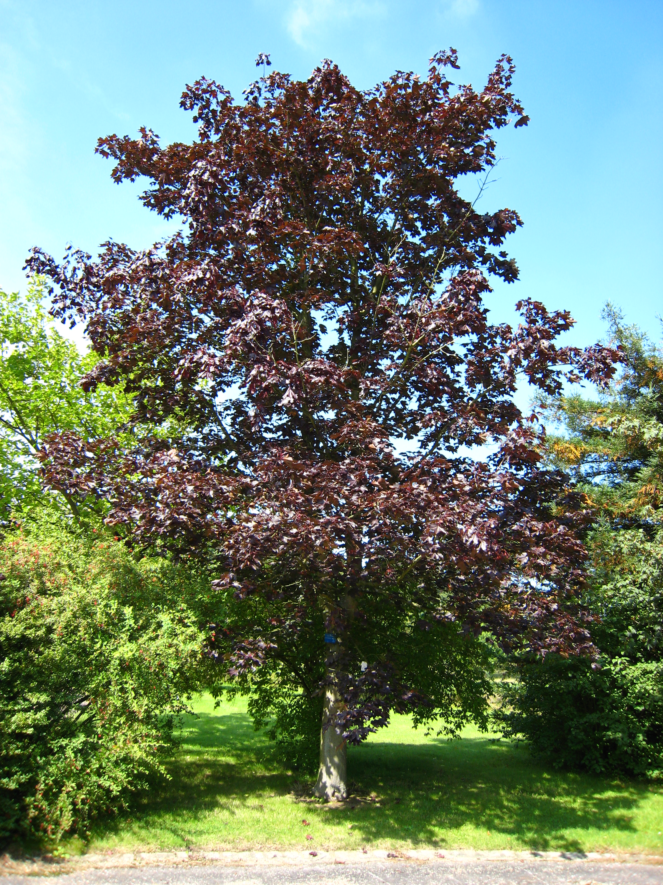 Acer platanoides 'Schwedleri' in the Arboretum de Chèvreloup in Rocquencourt